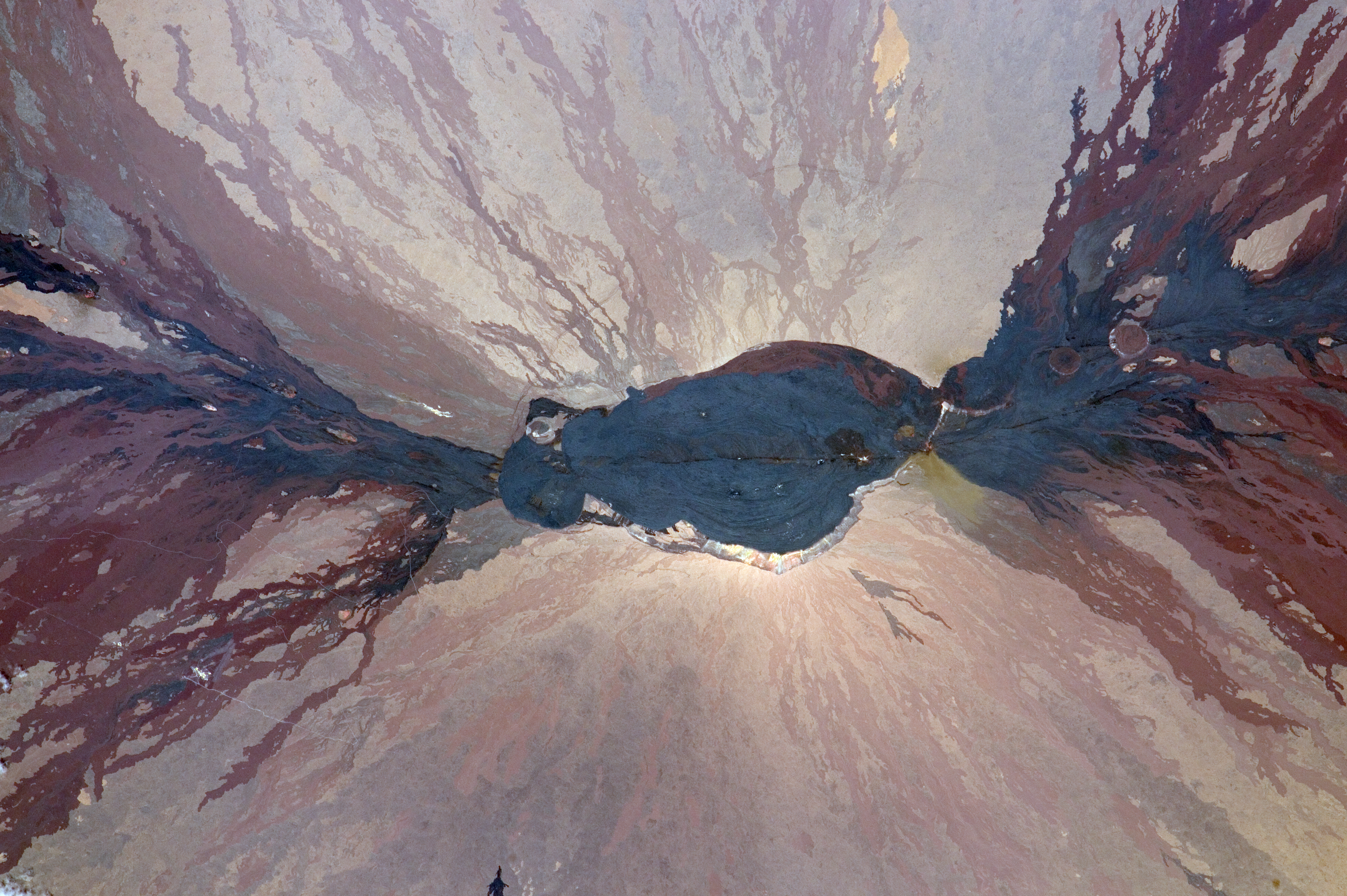 NASA astronaut Tim Kopra tweeted this image with the comment: "#MaunaLoa - #Hawaii volcano from a safe distance on @Space_Station. @GoHawaii @HI_Volcanoes_NP"